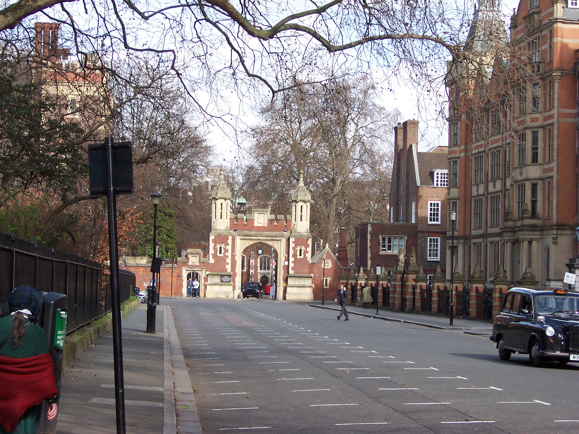 Lincoln's Inn, Holborn, London UK